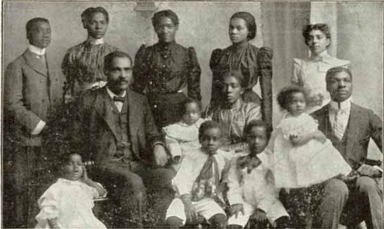 Rev. R. H. Boyd (1843-1922) and family. From E. C. Morris, 1855- , Sermons, Addresses and Reminiscences and Important Correspondence, With a Picture Gallery of Eminent Ministers and Scholars. Nashville, Tenn.: National Baptist Publishing Board, 1901.